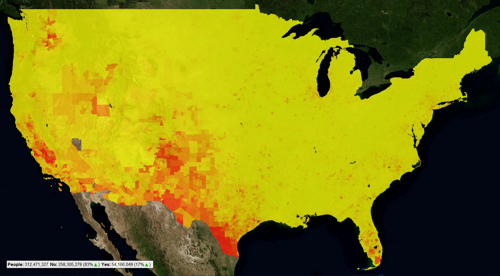 US 2010 Census Latino Population as a Heatmap by census tract. Each Census tract in the US is colored based on the percentage of the Latino population in the census tract. The higher the percentage the more red the tract is colored. The image is created in .